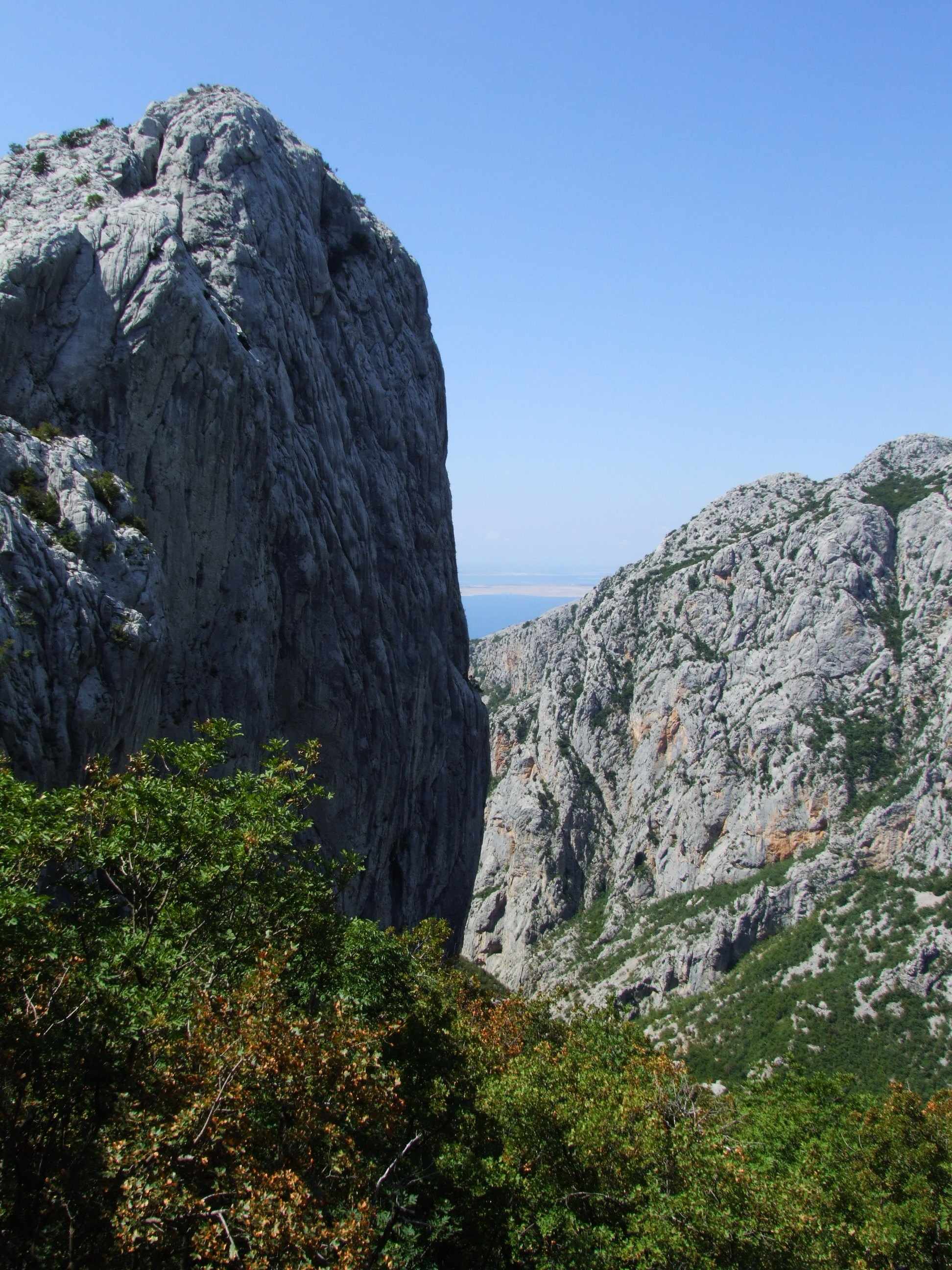 National Park Paklenica - peak Anića kuk (on the left)